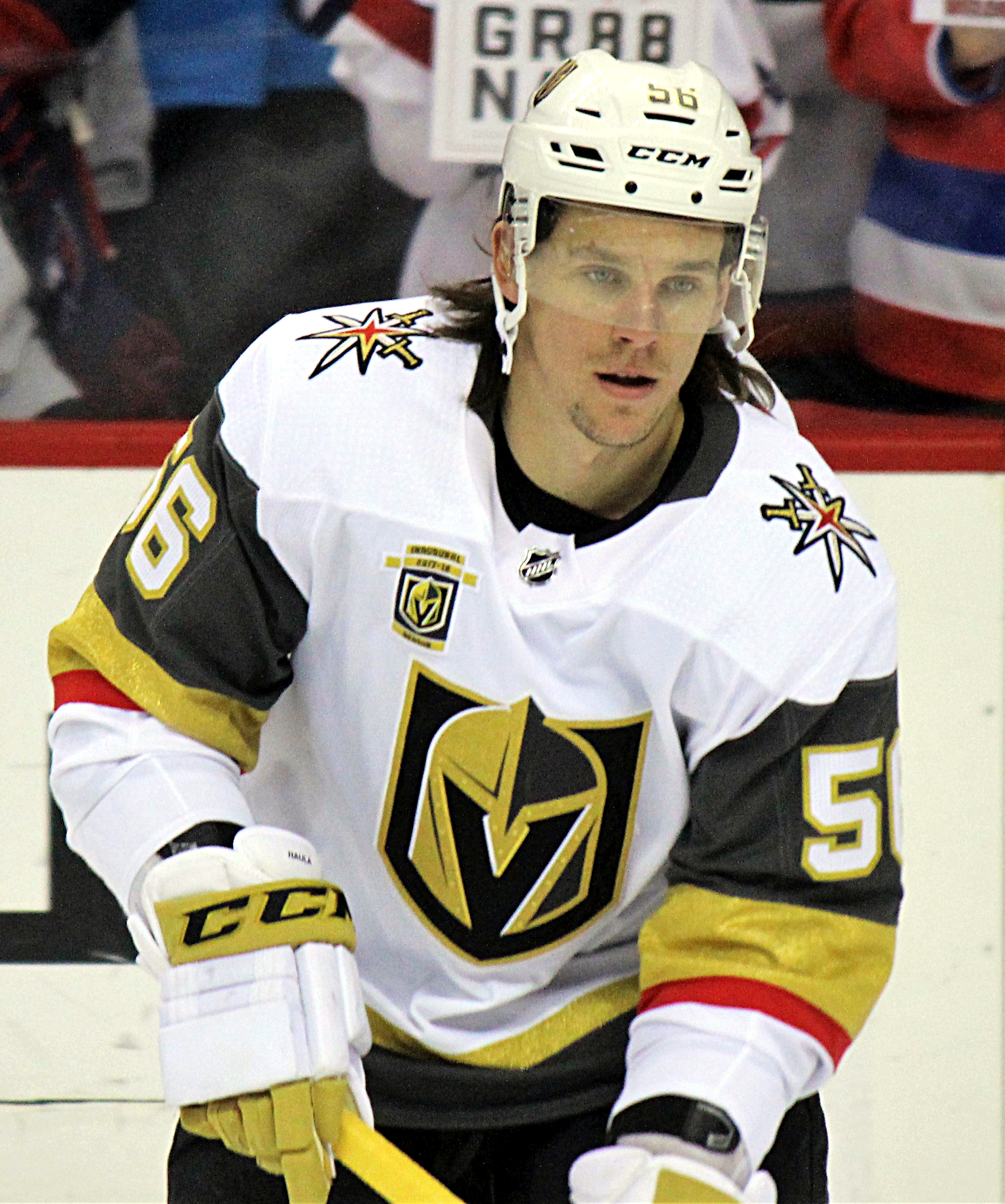 Vegas Golden Knights forward Erik Haula during a game against the Washington Capitals, February 4, 2018, at Capital One Arena in Washington, D.C.